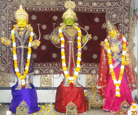 Raghunath nka besha...